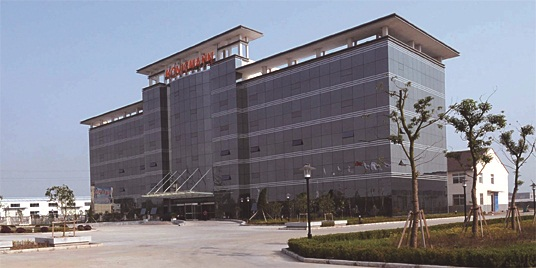 konigmann building